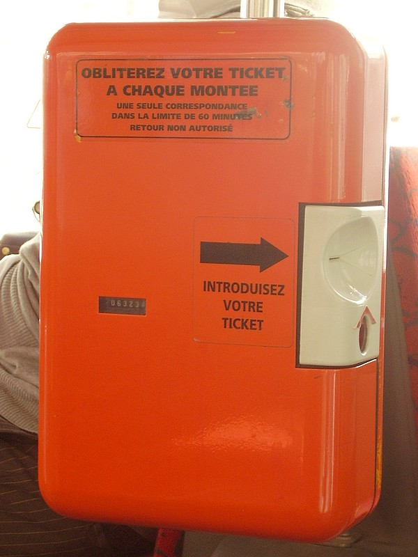 Cegelec bus tickets validater.